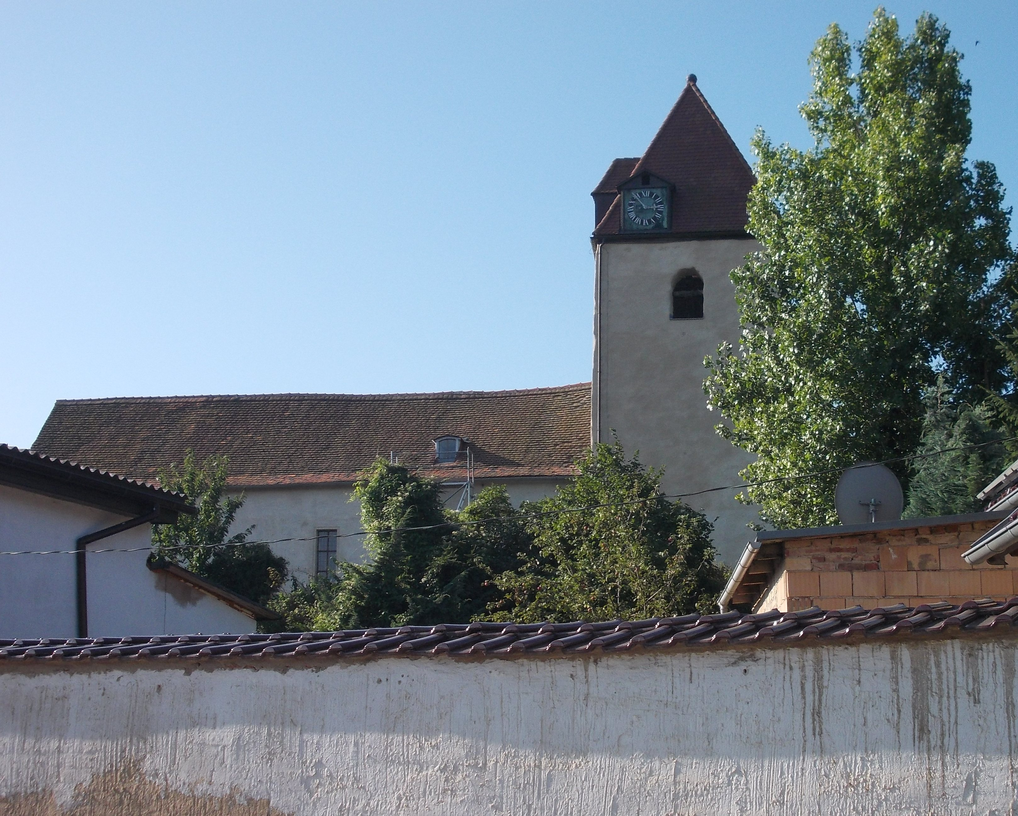 St. Stephen's Church in Freckleben (Aschersleben, district: Salzlandkreis, Saxony-Anhalt)